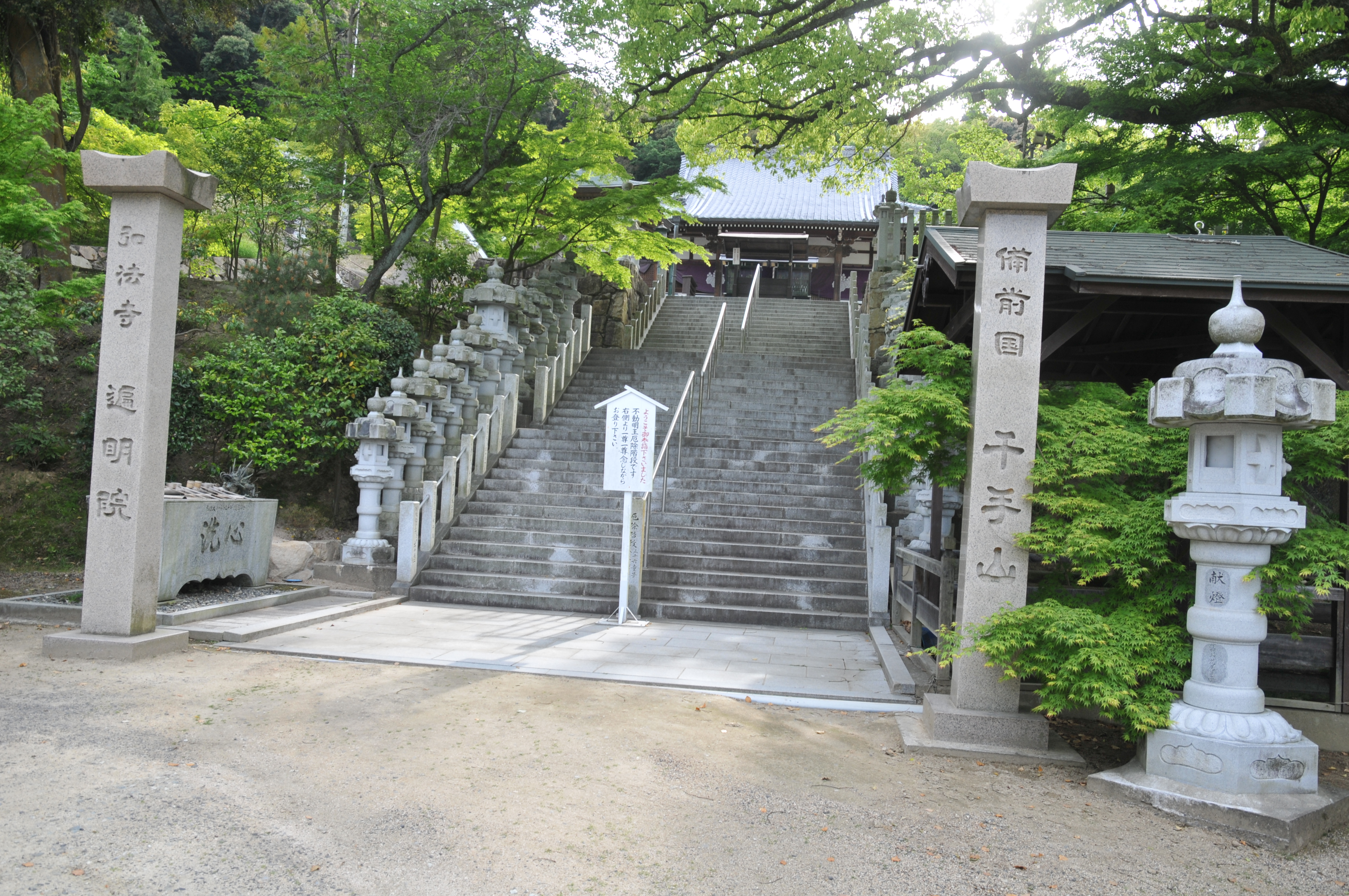 Entrance, Henmyō-in